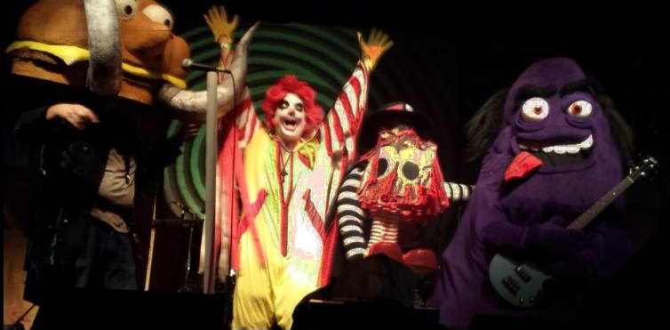 A picture of American heavy metal parody band Mac Sabbath following their performance at Bergamot Station in Santa Monica in July 2014.